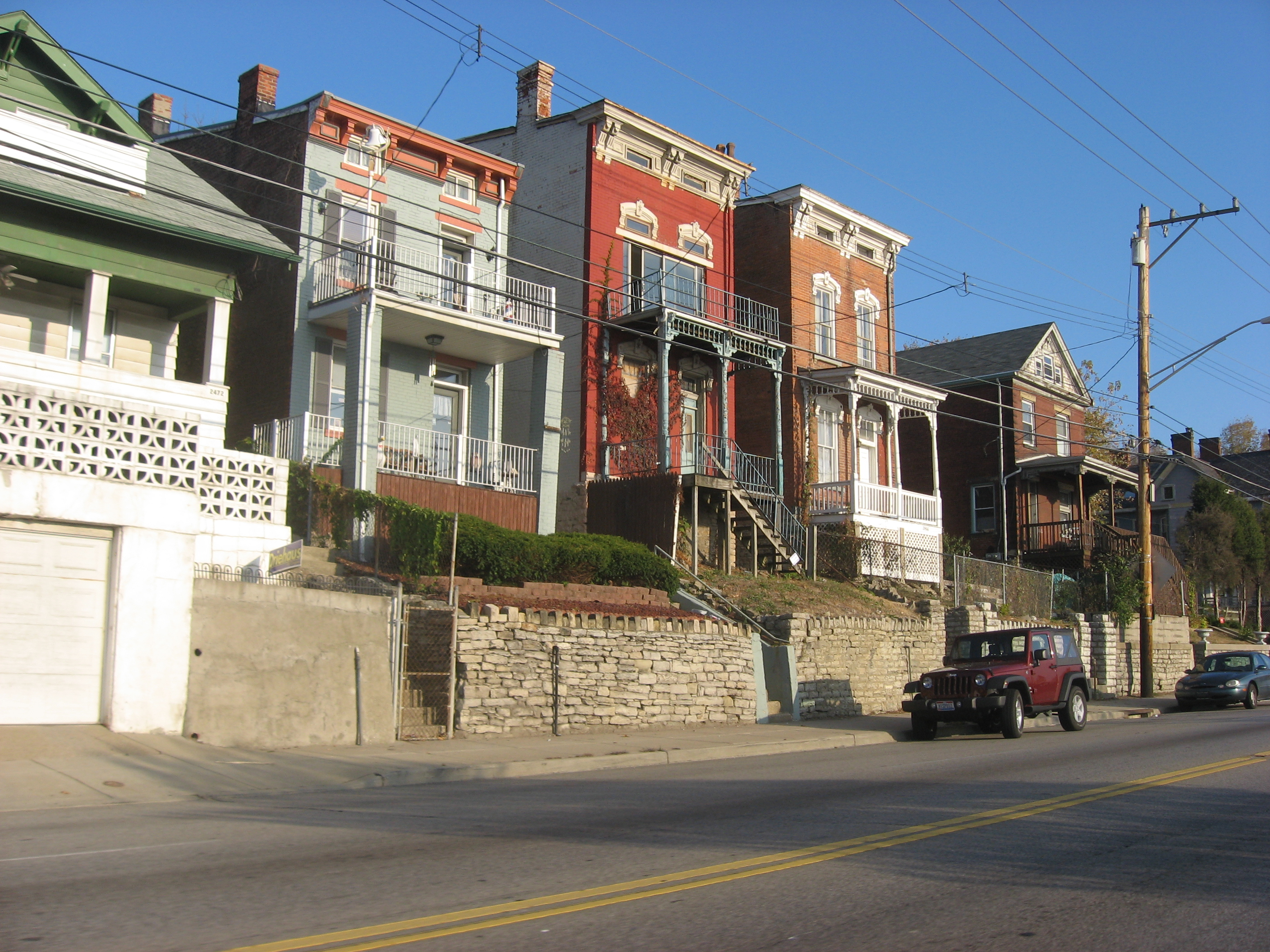 Houses in the 2400 block of River Road (U.S. Route 50) in western Cincinnati, Ohio, United States. This block is part of the Sedamsville River Road Historic District, a historic district that is listed on the National Register of Historic Places.